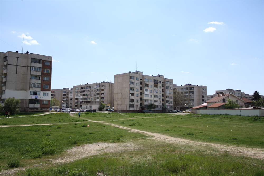 Residential area in Botunets Sofia District